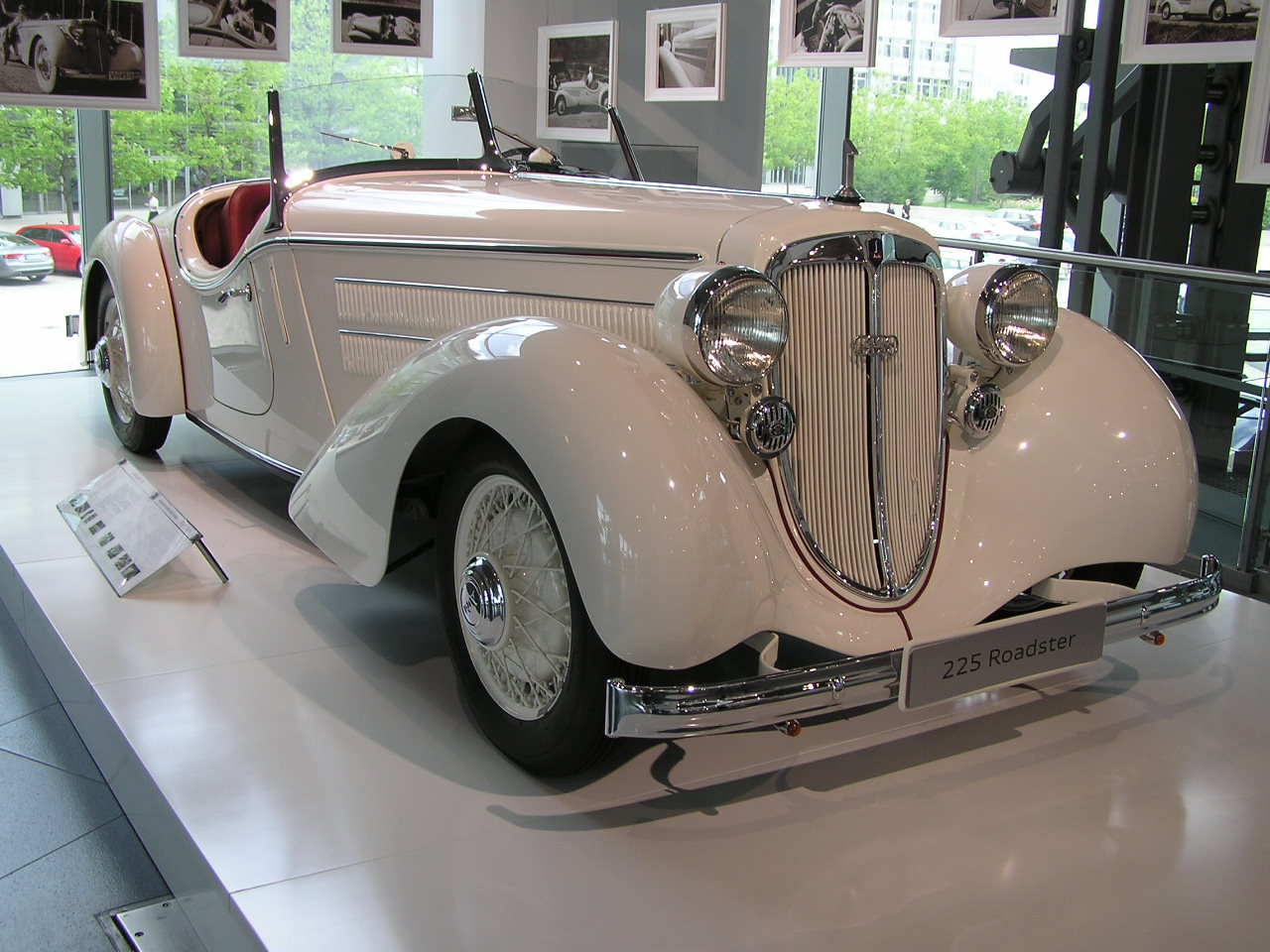 Audi Front 225 Roadster